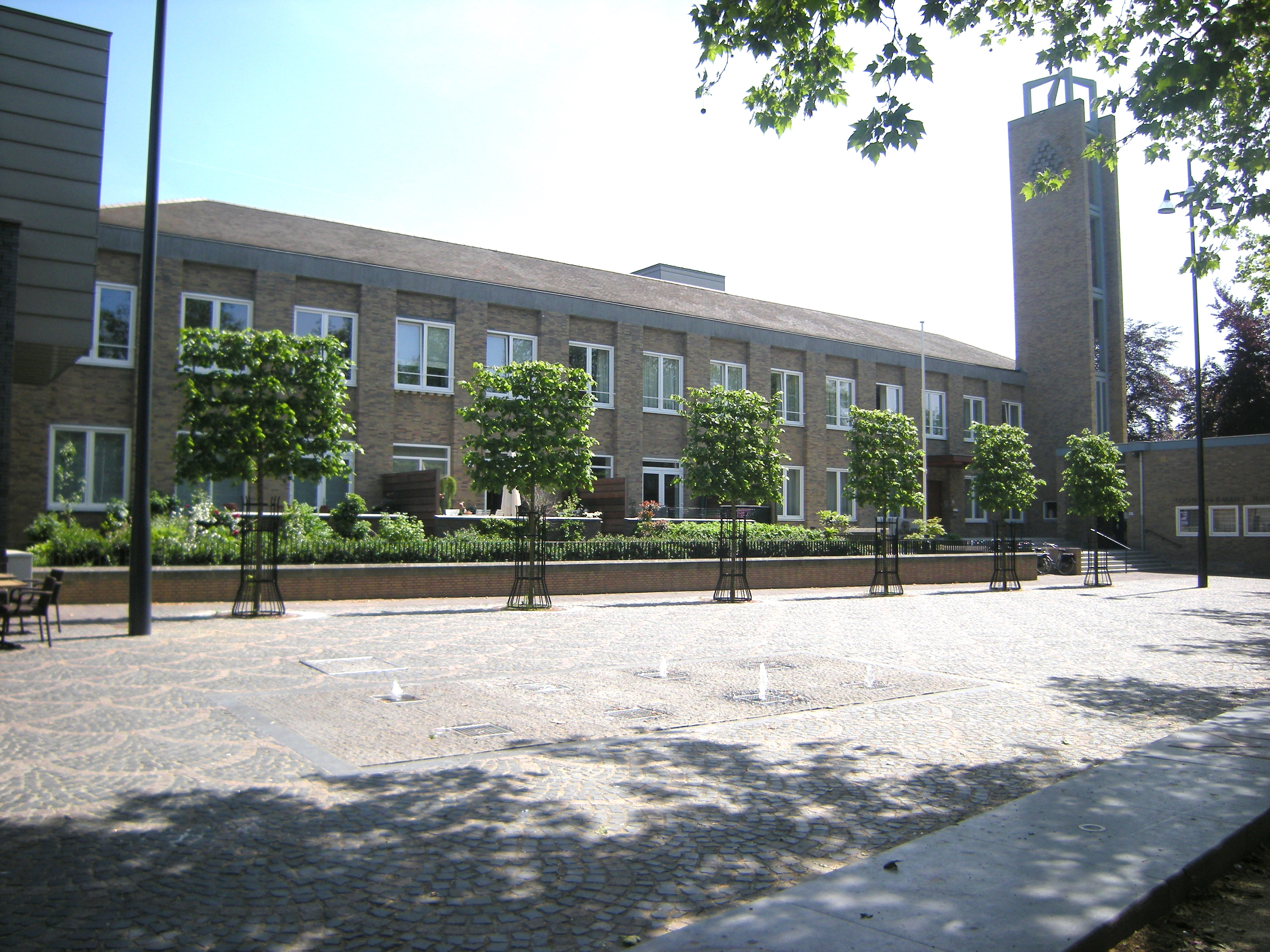 Monastery of the Dominicans in Venlo (1960)